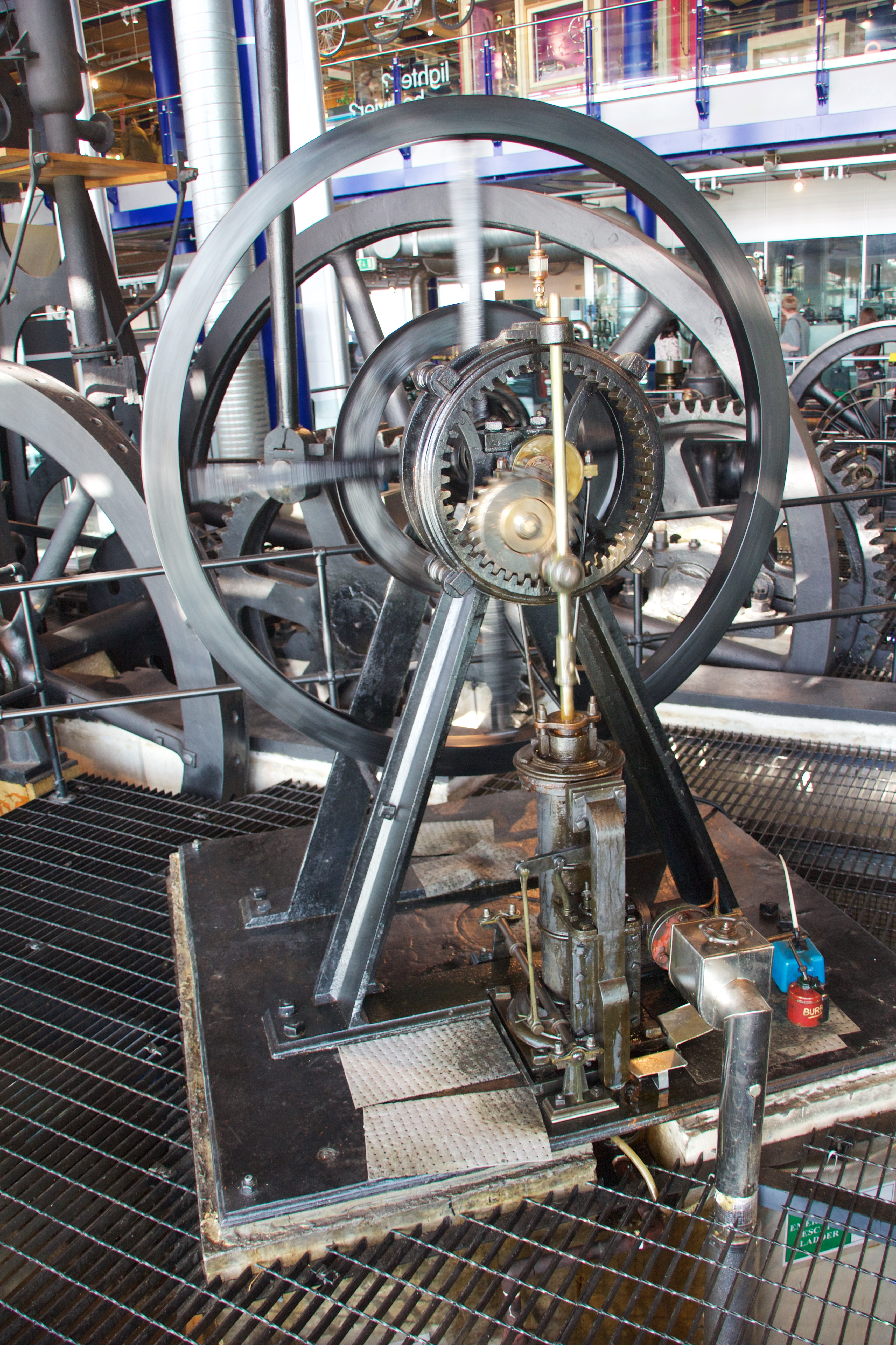 Iron Foundry Engine, 1805. At Thinktank, Birmingham.